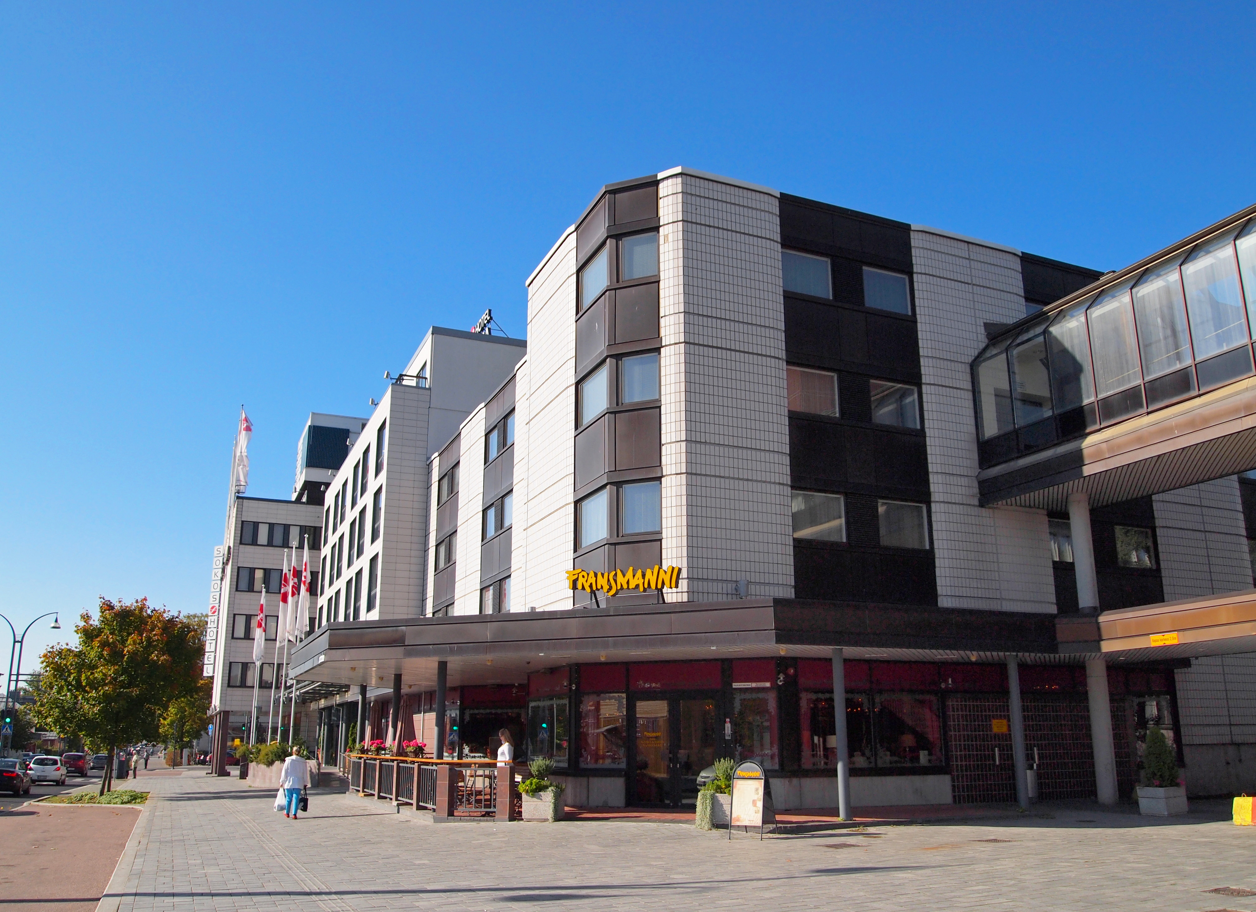 Restaurant Fransmanni next to Sokos hotel on the street Hannikaisenkatu in Jyväskylä. This photograph was taken with a Olympus E-PL1.